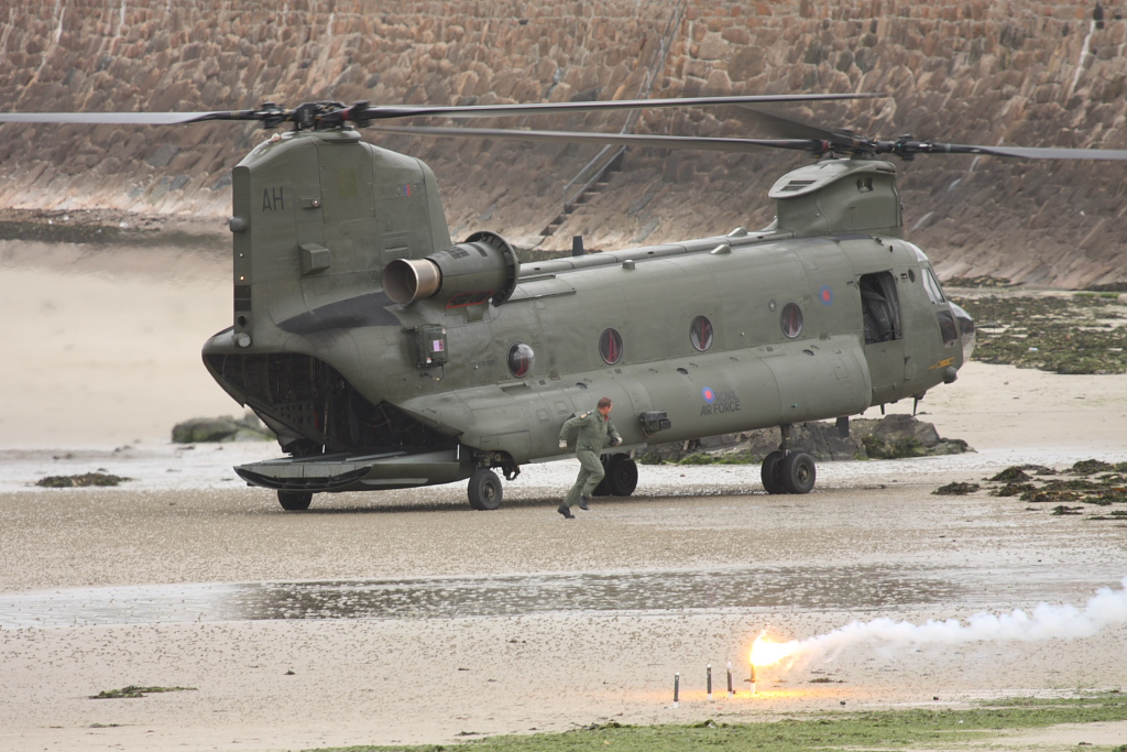 An RAF Chinook which has landed on the beach at West Park, St. Helier, Jersey. As part of the Air Display.